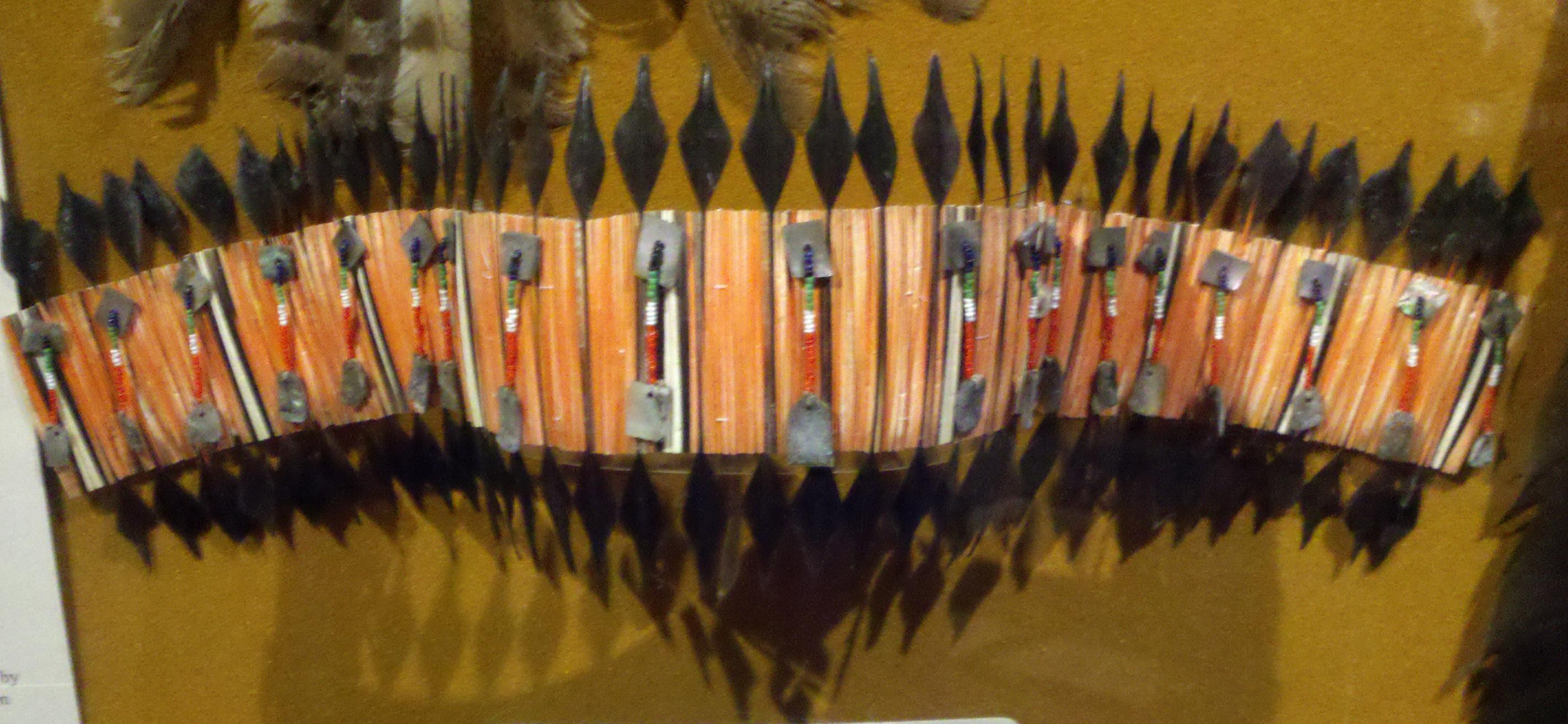 A photo of a "Southern Sierra Miwok Flicker Quill Headband" made by Chris Brown (Chief Lemme) ca. 1930, on display in the Yosemite Museum. This headband was made with the feathers of 20 flickers, as well as birds of other species, and is decorated with glass and abalone shell beads.